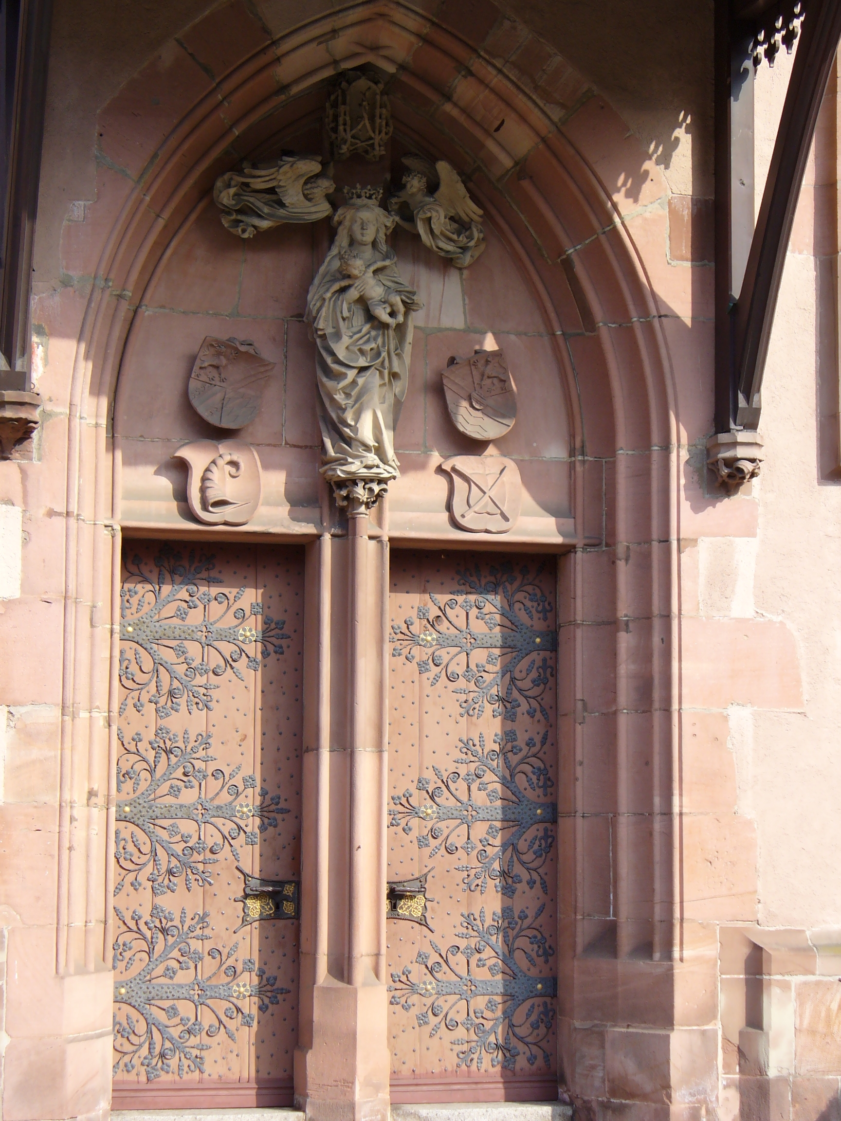 Entrance to the pilgrimage church "Maria Krönung" at Lautenbach, Germany